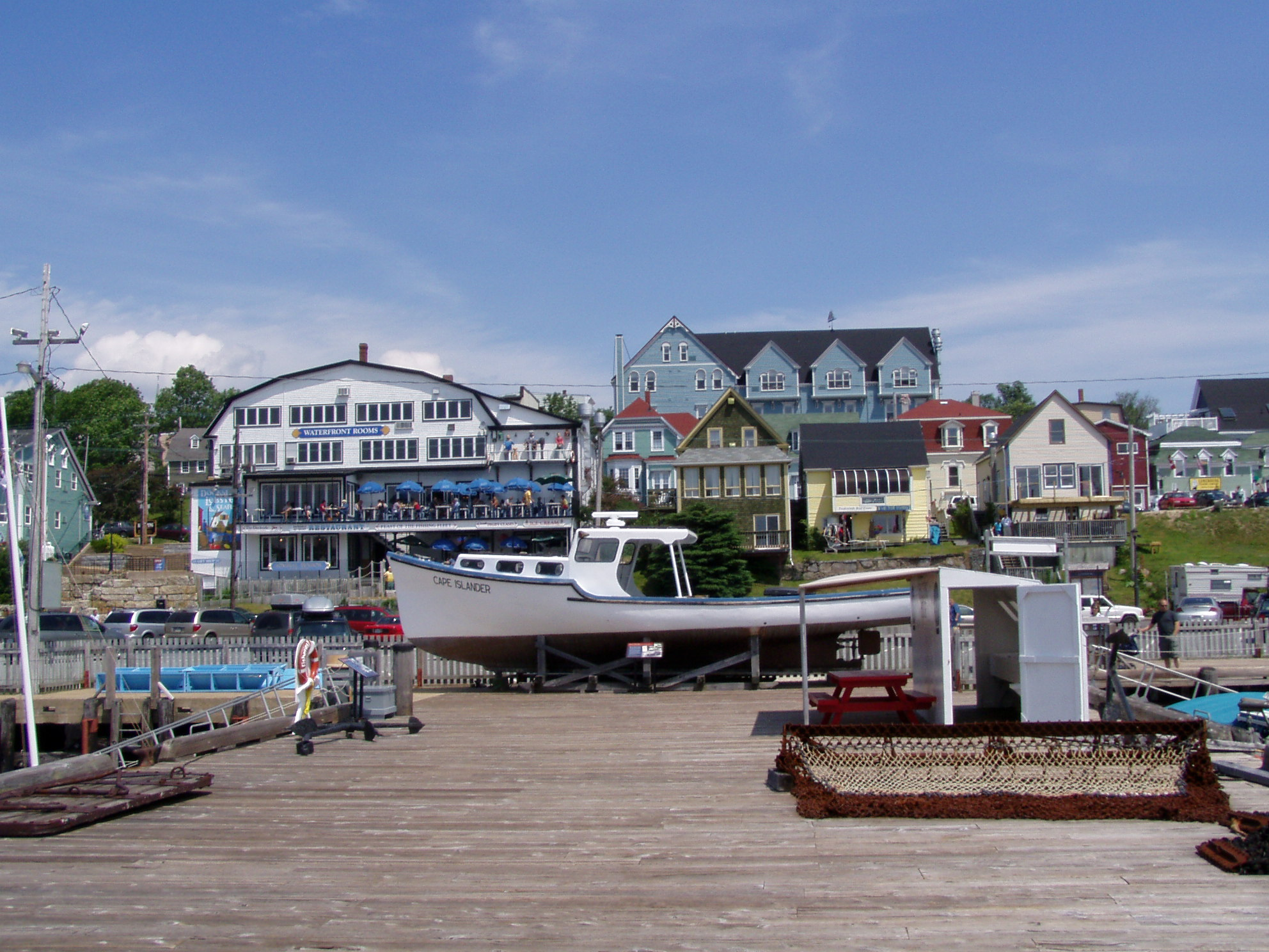 Lunenburg harbourfront, Nova Scotia, Canada. Photo taken in July 2004 by myself, Danielle Langlois.